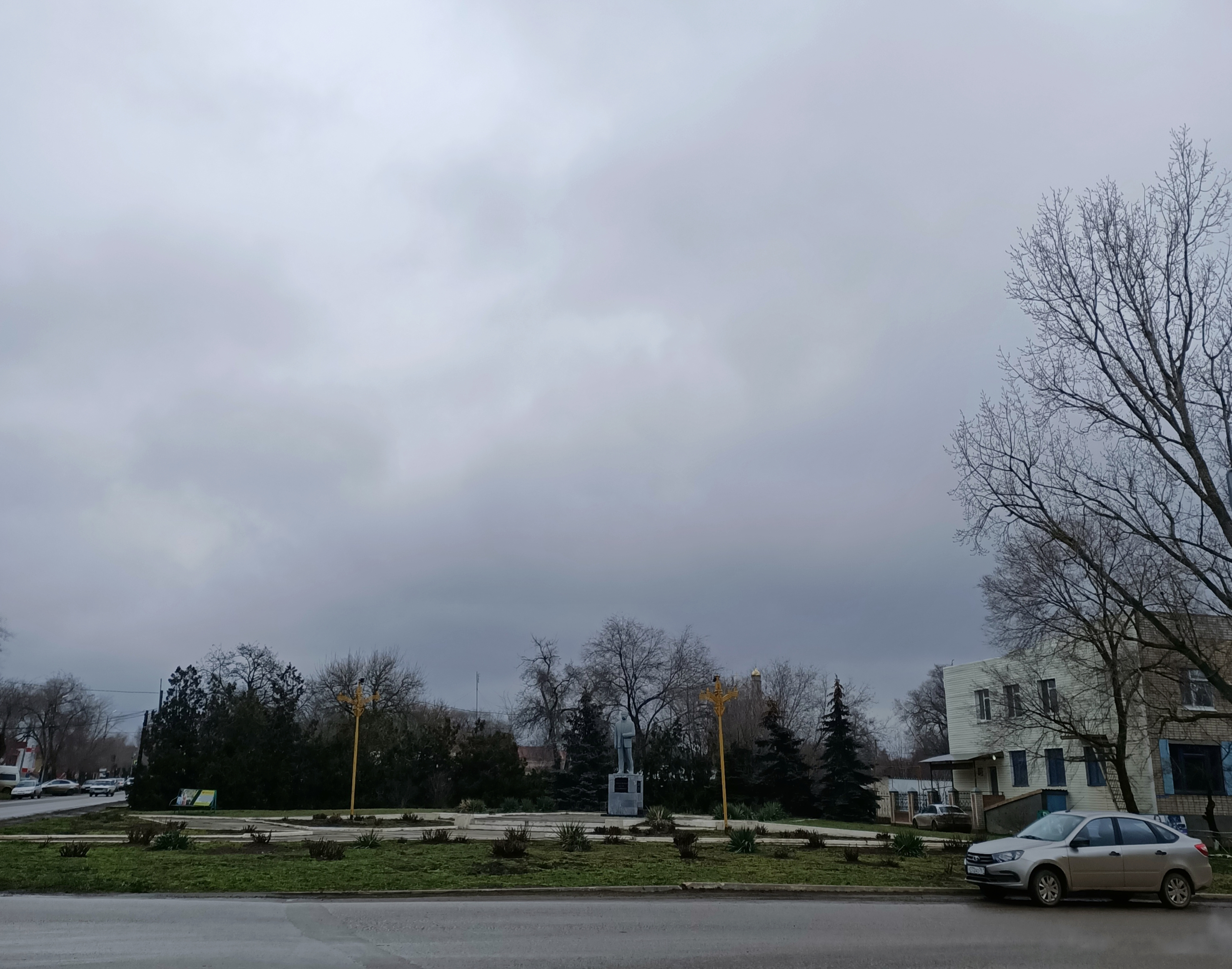 Фото памятника Басану Бадьминовичу Городовикову, Герою Советского Союза, генерал-лейтенанту. Городовиков Б.Б. - крупный военный, политический и общественный деятель России и Калмыкии